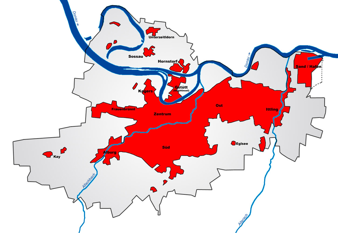 Map of the city of Straubing (Germany) with its districts